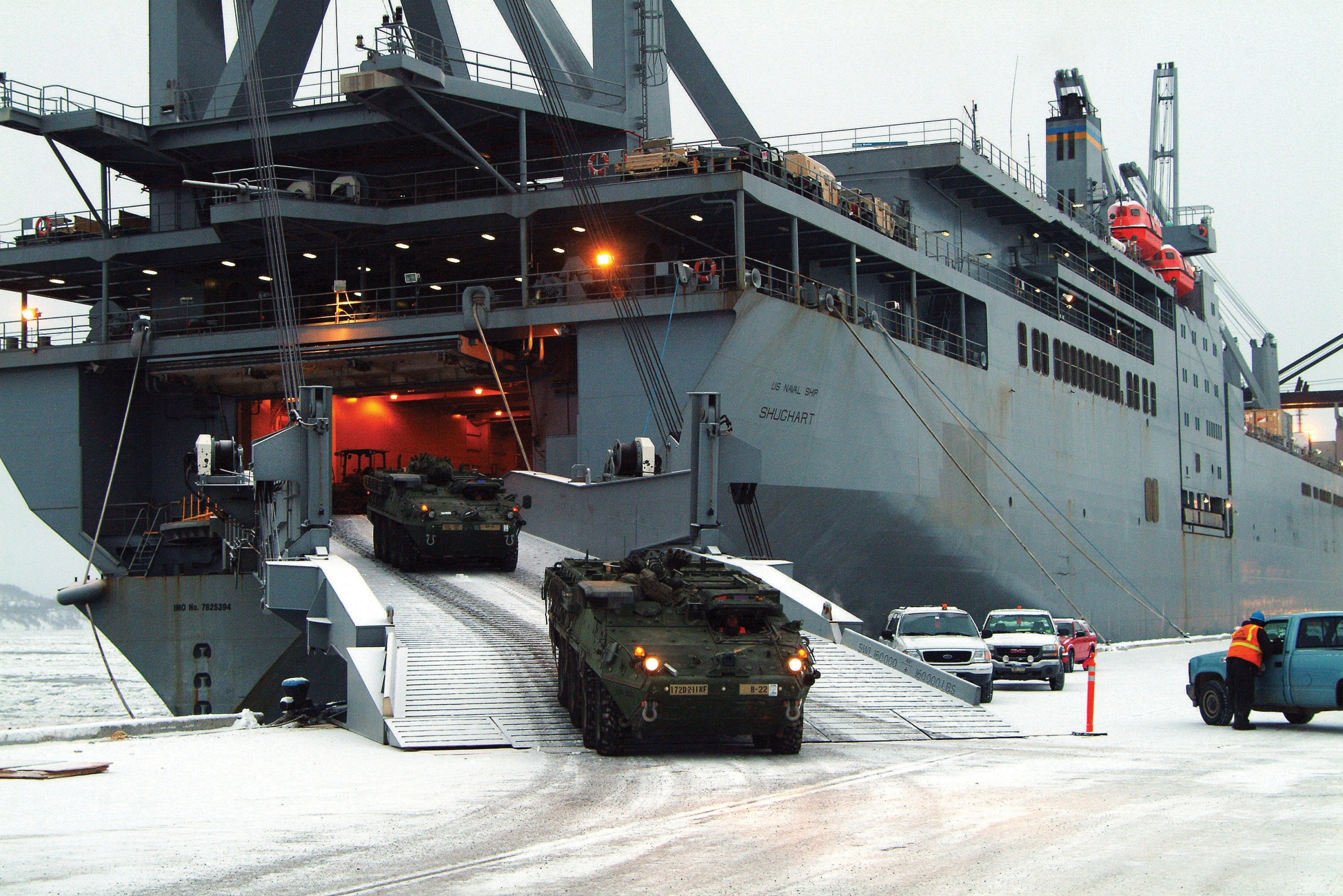 1-25 Stryker Brigade Begins Reset Period Photo by John Pennell February 02, 2007. Strykers make their way down the USNS Shughart's gangplank. The vehicles were prepped, loaded onto rail cars and returned to Fort Wainwright where crews will begin an overhaul as part of the 1st Stryker Brigade Combat Team, 25th Infantry Division's reset.